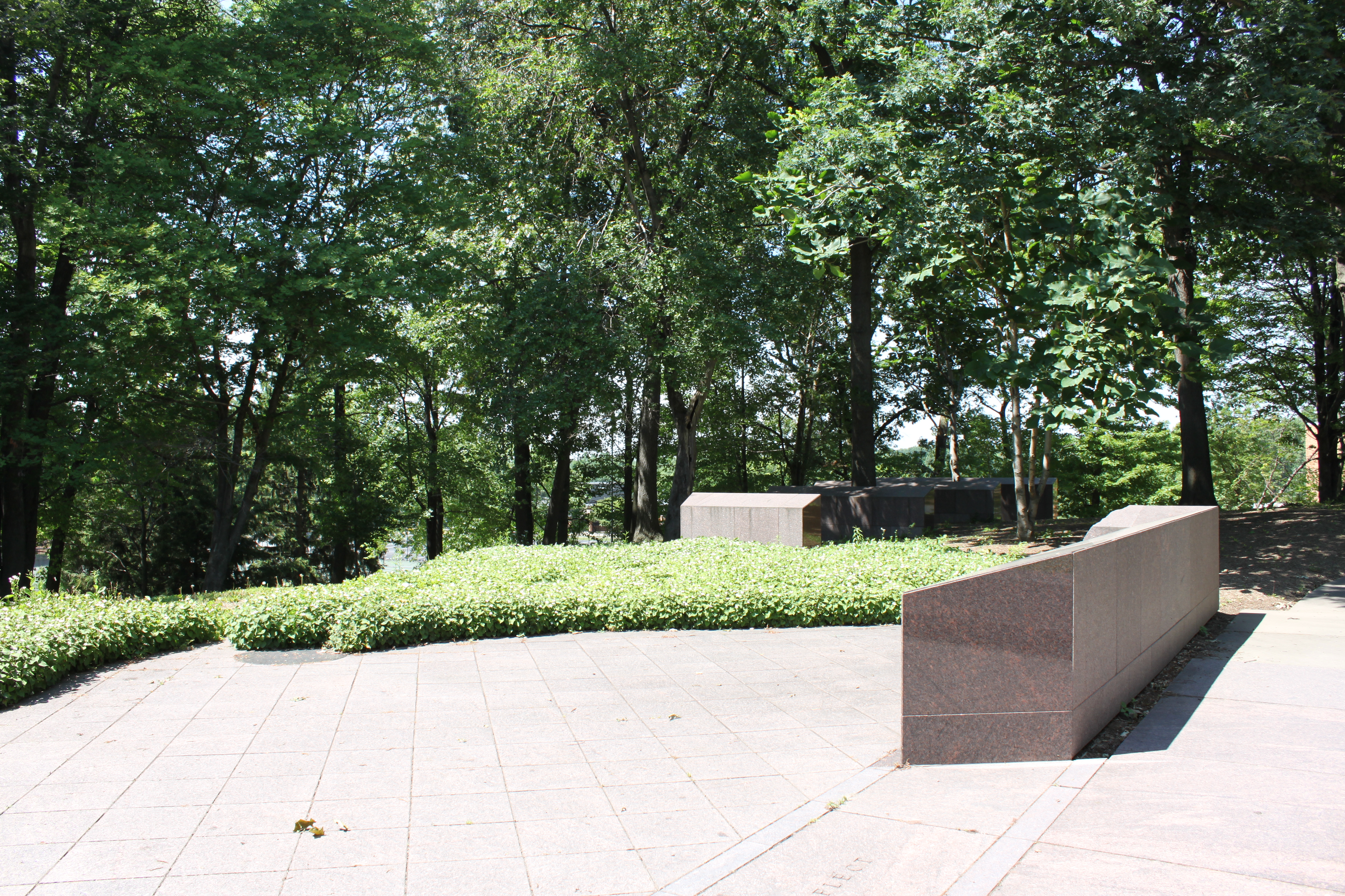 May 4th memorial at Kent State University